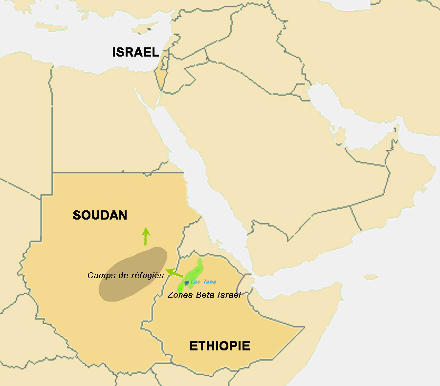 Carte des migrations falashas vers Israël Map of falashas migrations to Israel Par Christophe cagé 19:46, 17 October 2006 (UTC)